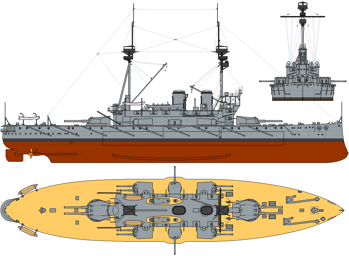 Diagrams depicting HMS Agamemnon, Royal Navy pre-dreadnought battleship, as she was in 1908. 1/450 scale.